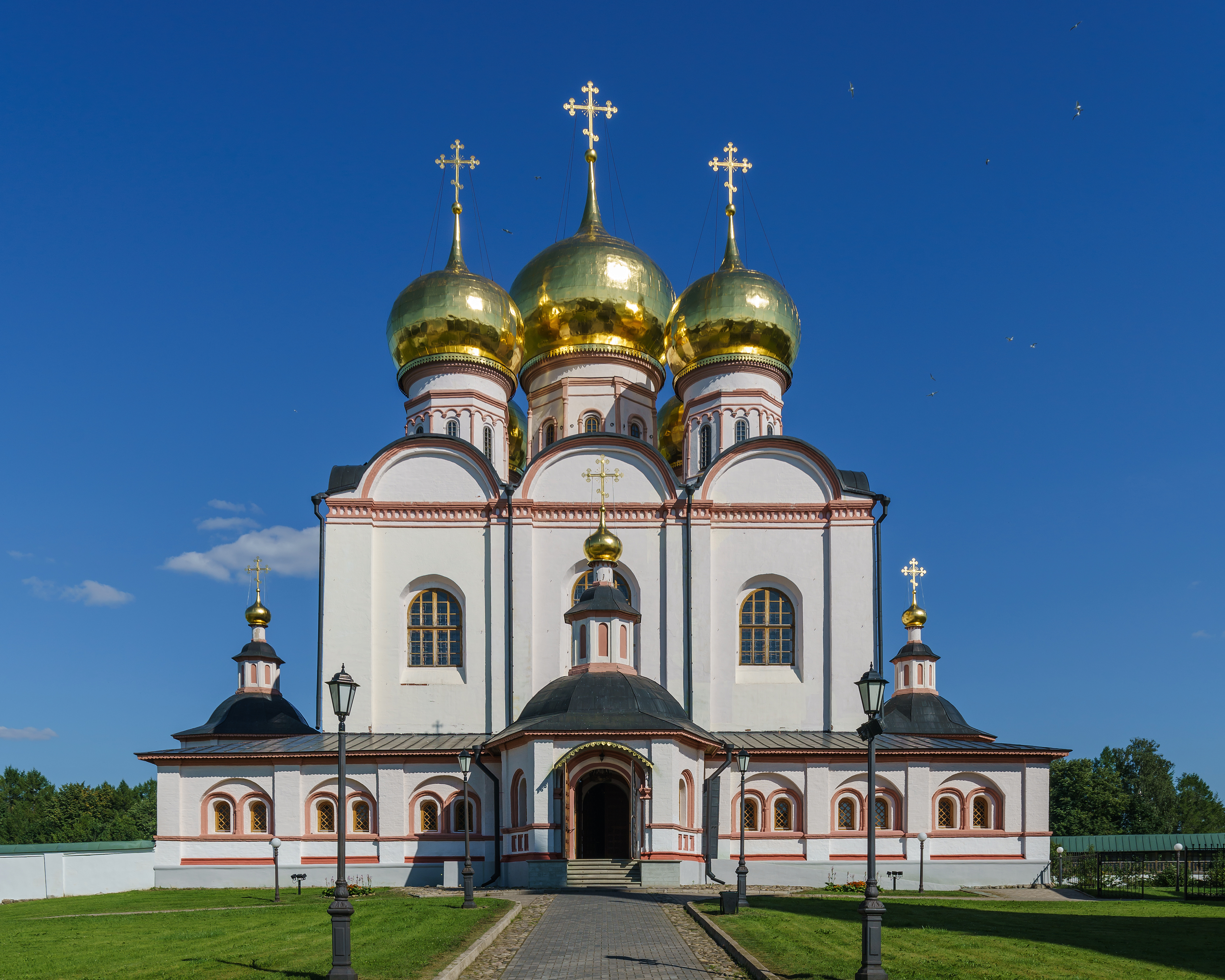 Cathedral of Iversky Monastery in Valdai, Novgorod Oblast, Russia.